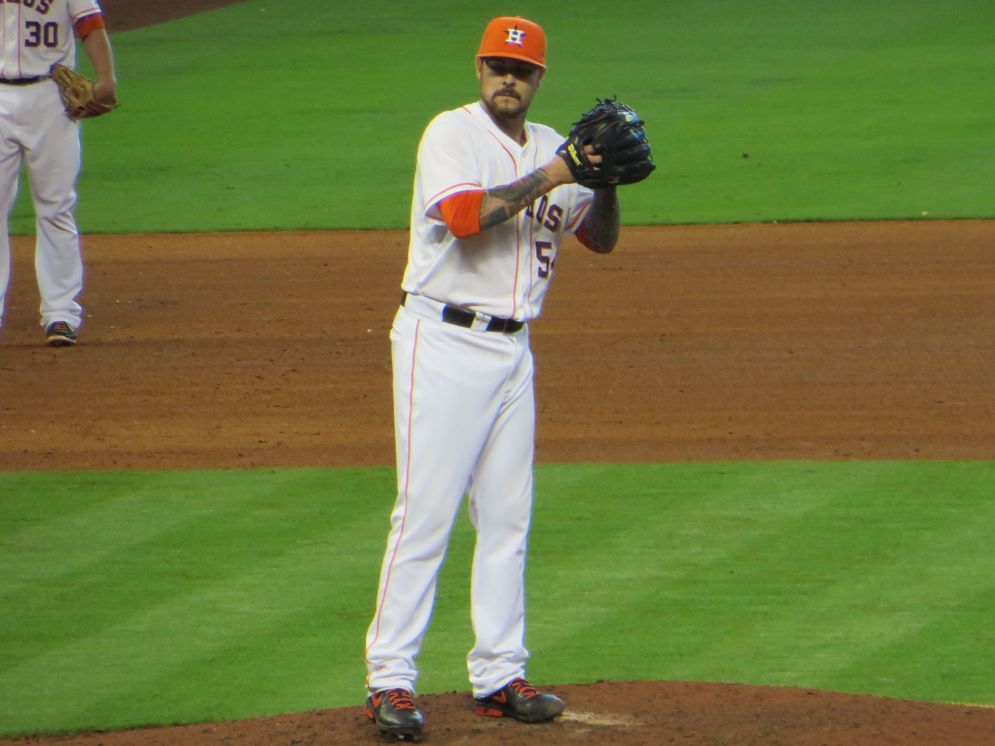 Houston Astros pitcher Travis Blackley against the Los Angeles Angels of Anaheim on June 29, 2013.